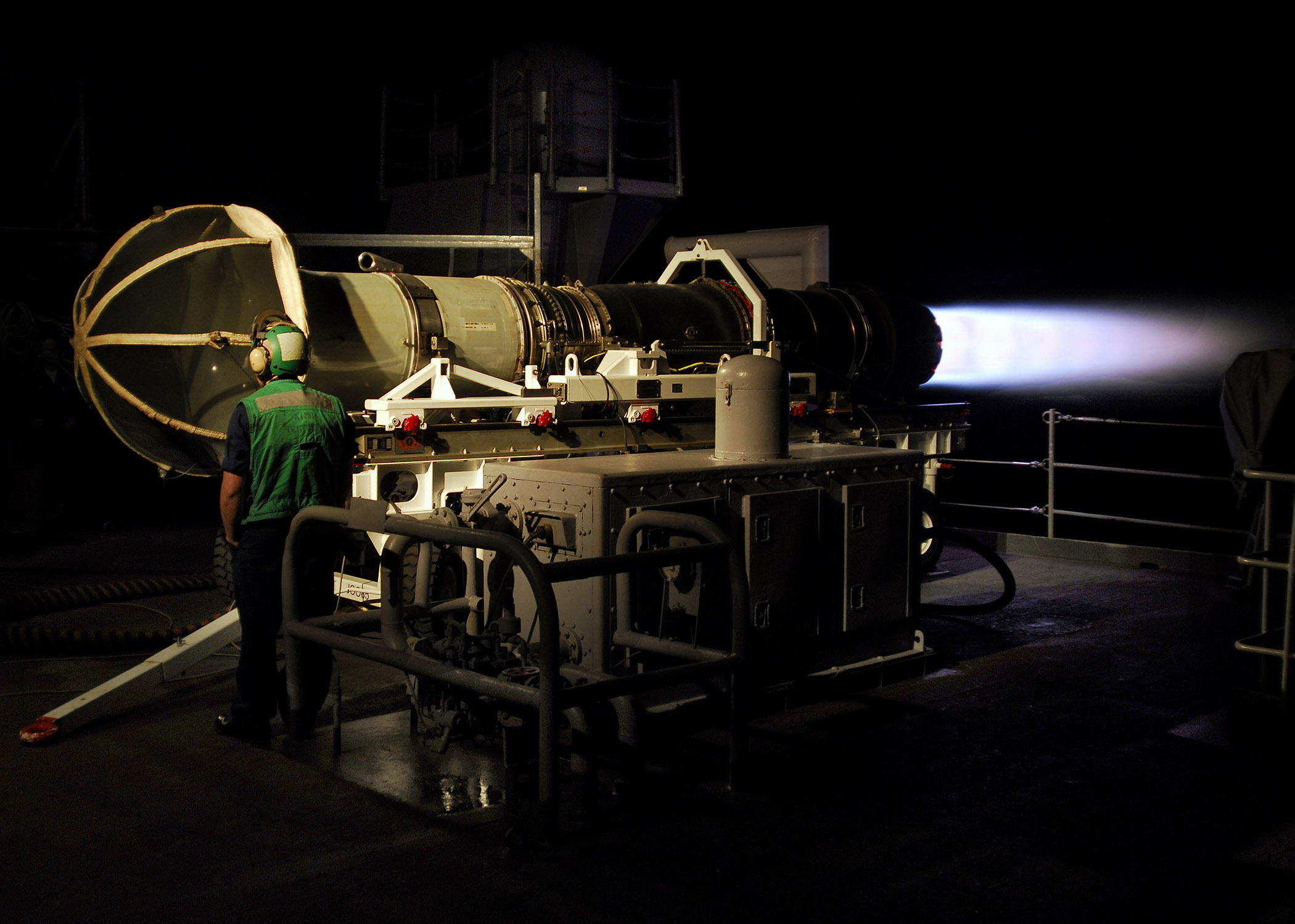 PACIFIC OCEAN (Aug. 3, 2007) - A Sailor assigned to Aircraft Intermediate Maintenance Department (AIMD) tests an aircraft jet engine for defects while performing Jet Engine Test Instrumentation, (JETI) Certification/Engine Runs on the fantail aboard Nimitz-class aircraft carrier USS Abraham Lincoln (CVN 72). Lincoln and Embarked Carrier Air Wing (CVW) 2 are underway off the coast of Southern California conducting a Tailored Ship's Training Availability and carrier qualifications. U.S. Navy photo by Mass Communication Specialist Seaman Brandon C. Wilson (RELEASED)